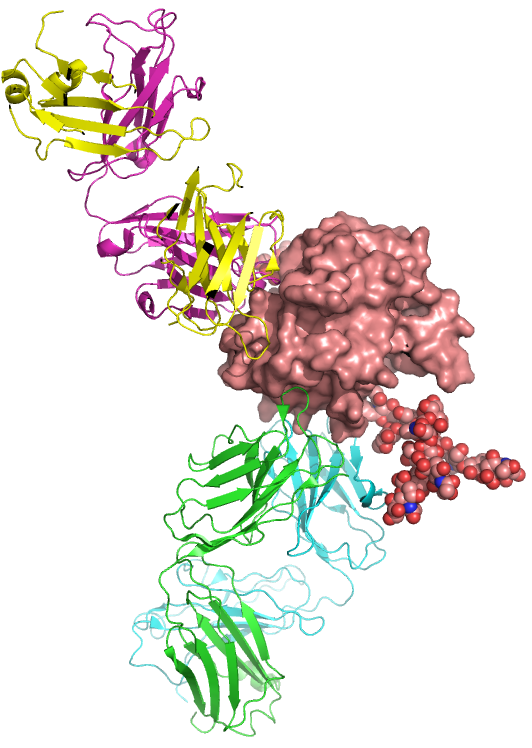 Prostate specific antigen in a sandwich complex with two immunoglobulin Fab fragments.